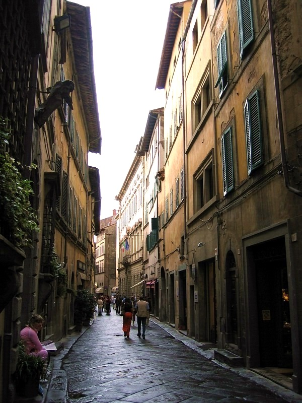 Street in Cortona (Tuscany, Italy).